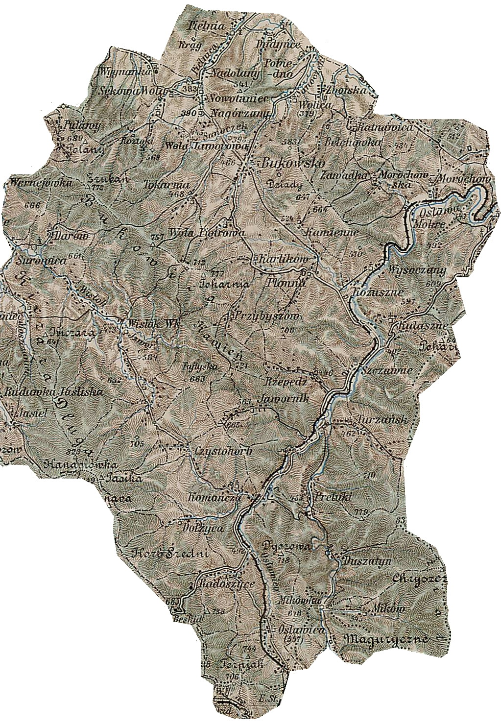 Bezirk-Hauptmannschaft Sanok, Gerichts-Bezirk Bukowsko. A 1898 map shows the location of villages (click in it to enlarge)